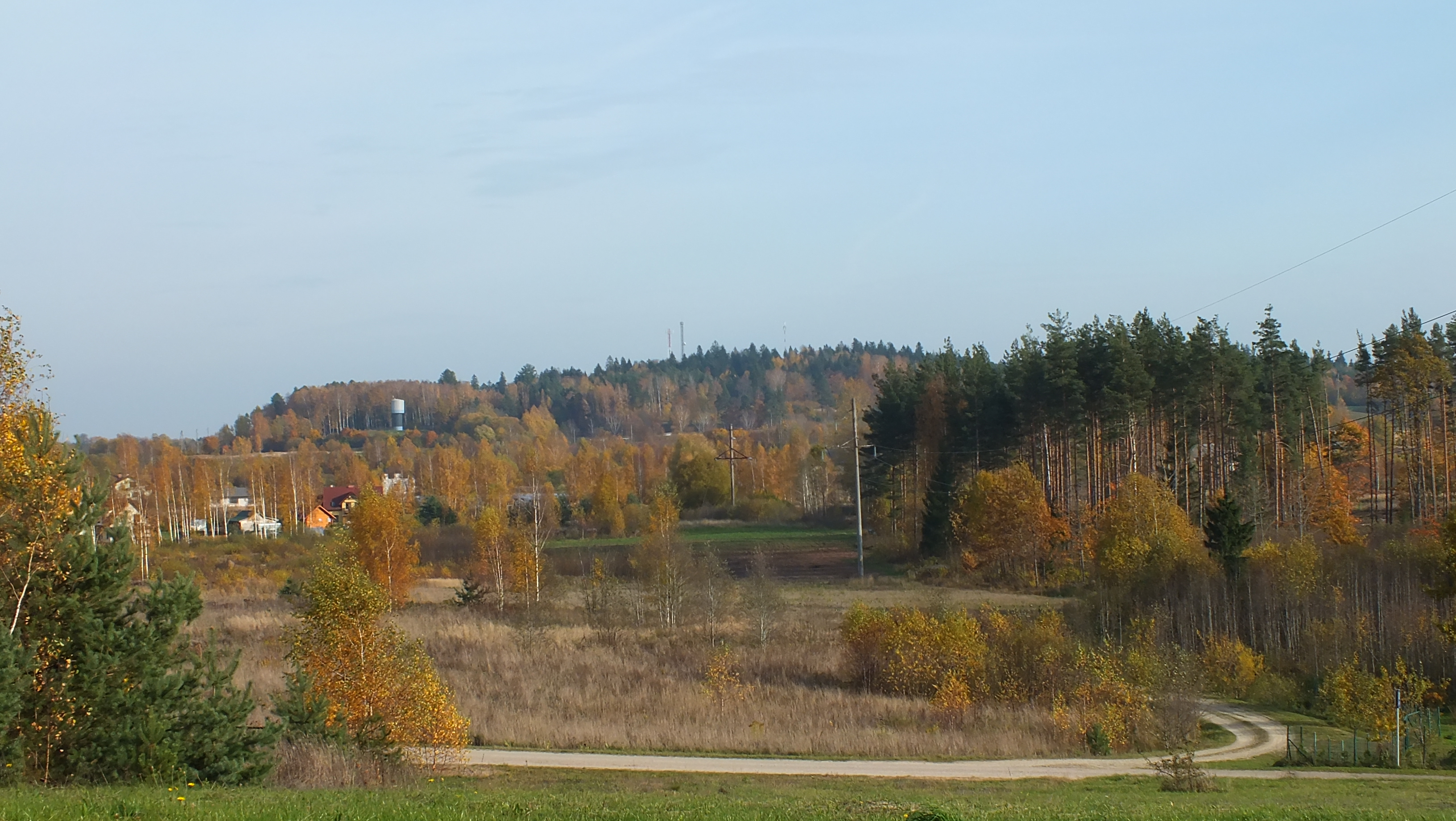 Morisonkalns Hill, view from VanagkalnsLatviešu: Morisonkalns, skats no Vanagkalna